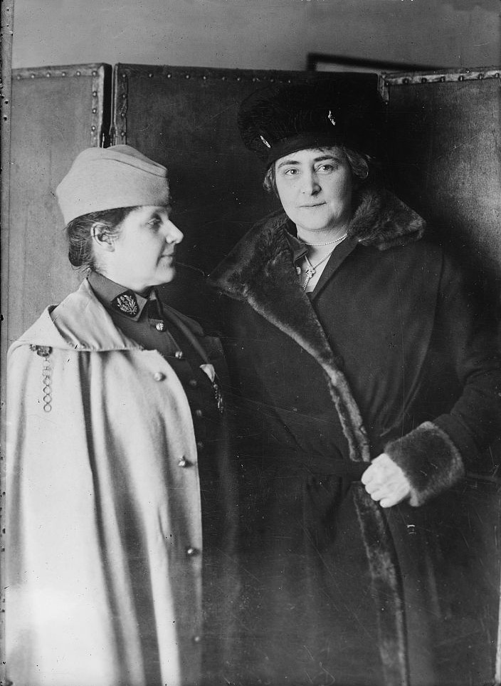 Rosalie Slaughter Morton and Anne Morgan in 1918